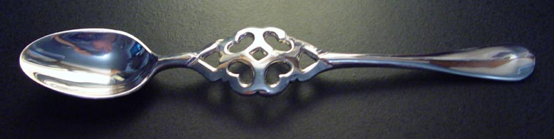 Absinthe spoon with the sieve on the handle.